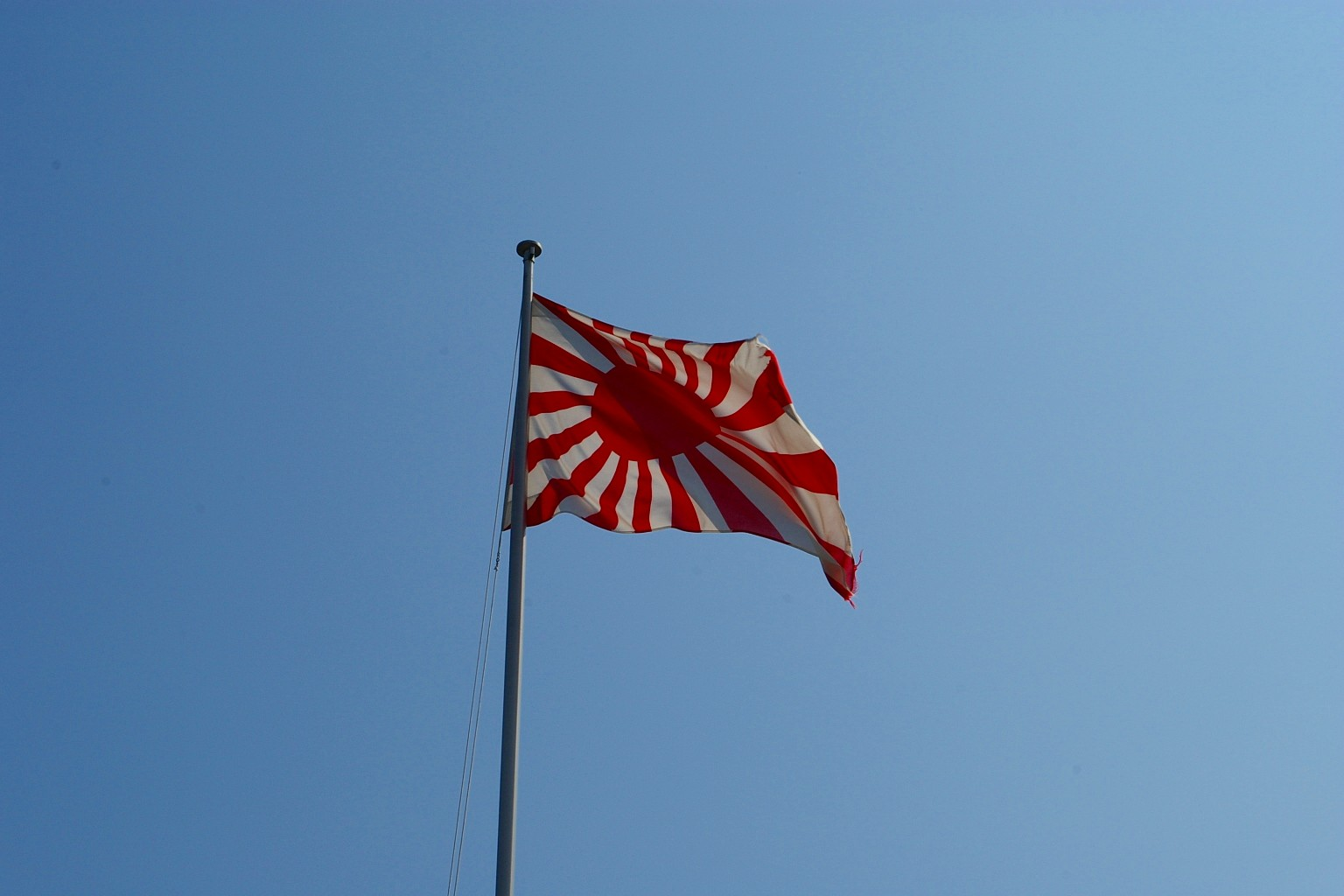 Japanese naval ensign Uploaded with the following summary: 旭日旗 Ich machte dieses Foto von mir in 2006.